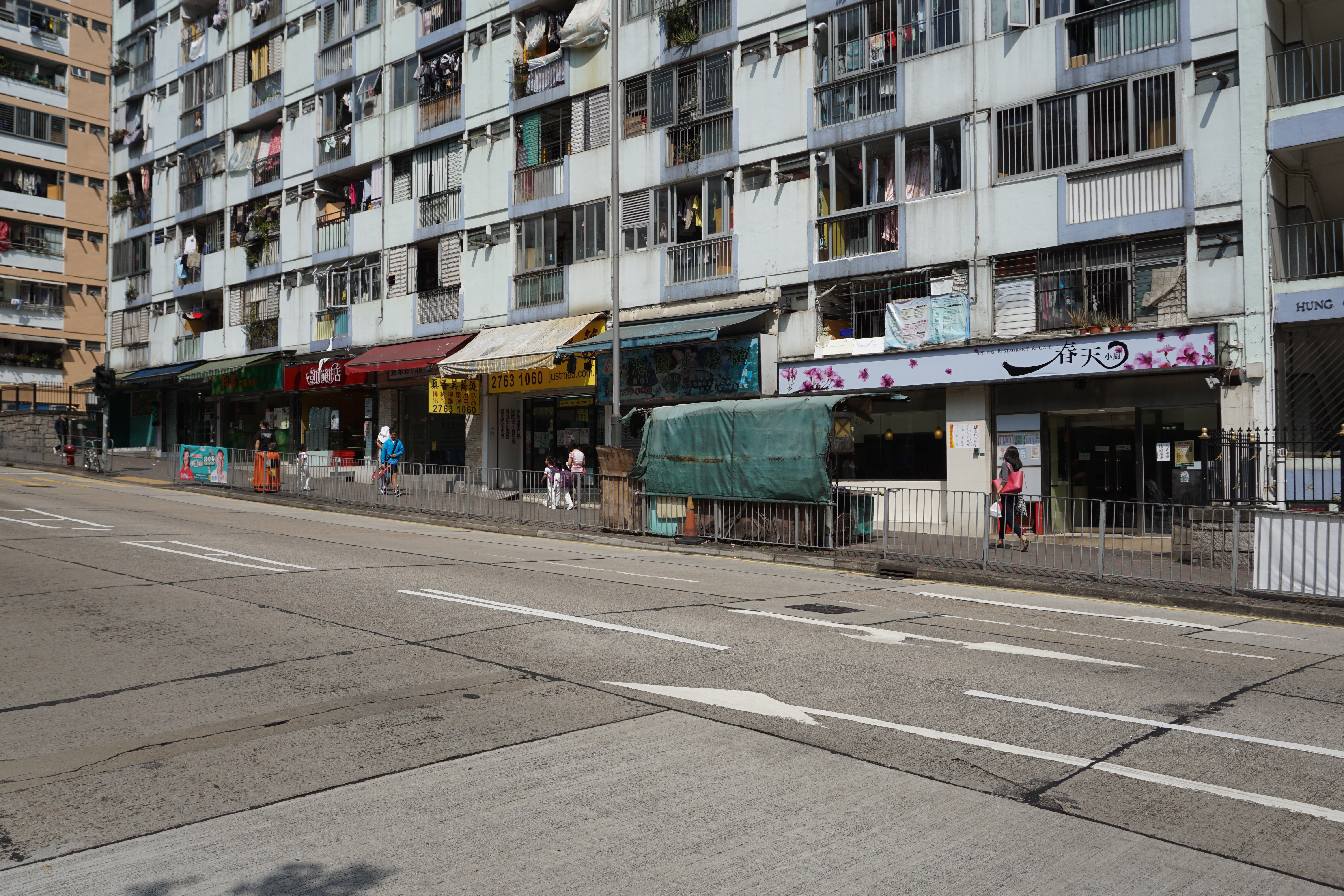 Kwun Tong Garden Estate in Ngau Tau Kok, Hong Kong.